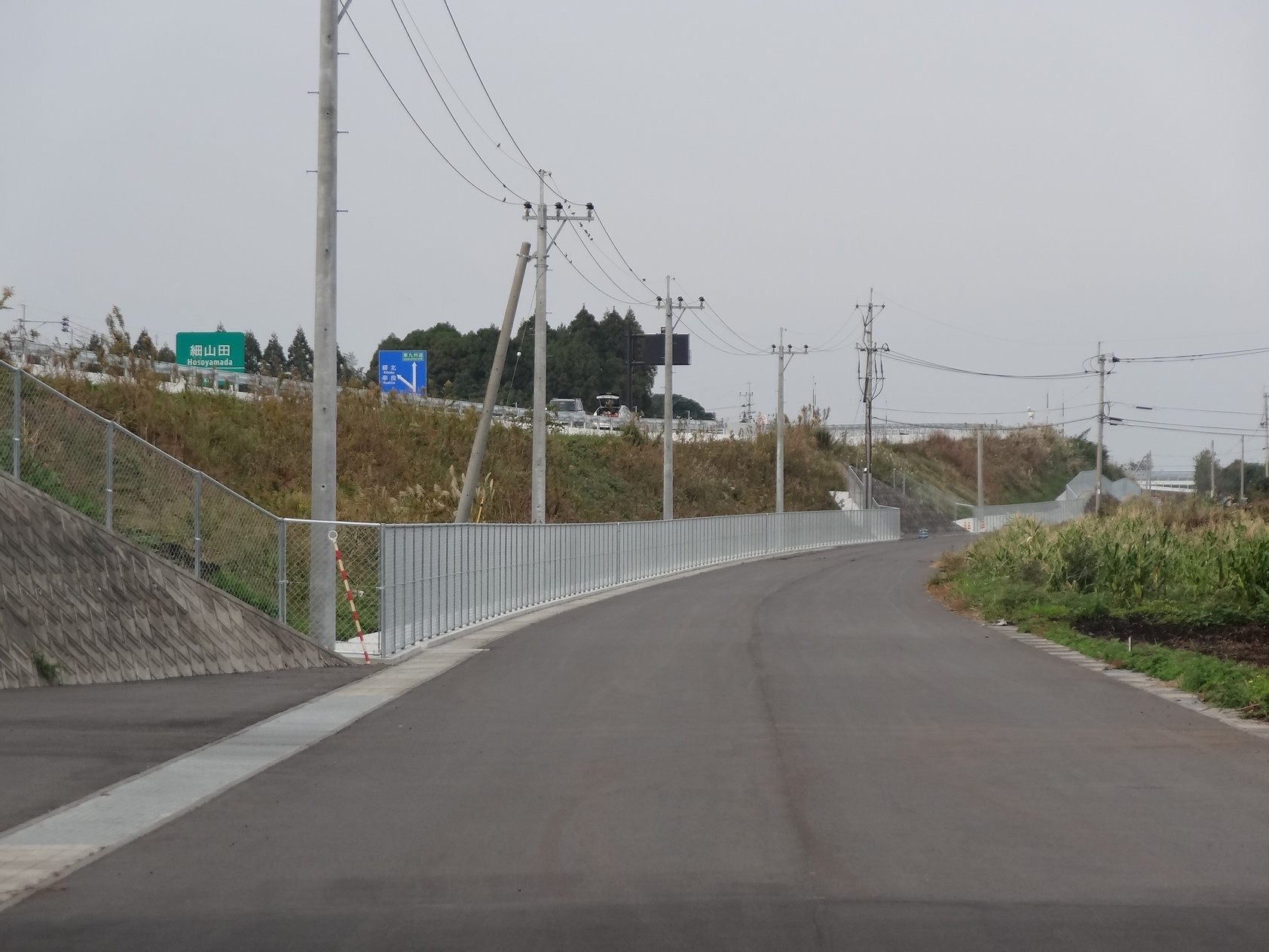 Kagoshima Prefectural Road No.552; Kanoya-Kushira Interchange Line and Higashi-Kyushu Expressway and Osumi Jukan Road (Under Construction) in Kanoya City, Kagoshima Prefecture, Japan.